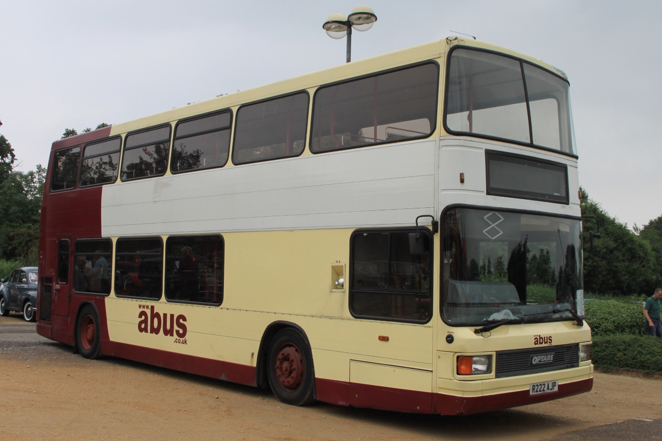 R222AJP is an Optare Spectra bus, the first low-floor double decker to enter service in the United Kingdom. This was in 1998 when it worked the Abus route A39 between Bristol and Keynsham. It is seen here in 2012 at a locl bus rally.